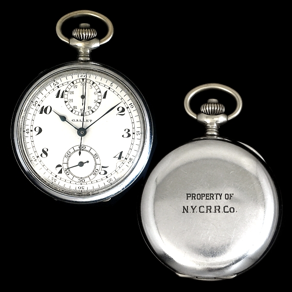 NYCRR Chronograph Pocketwatch (ca. 1910) manufactured by the Gallet & Co. for use by conductors and engineers of the New York Central Rail Road.